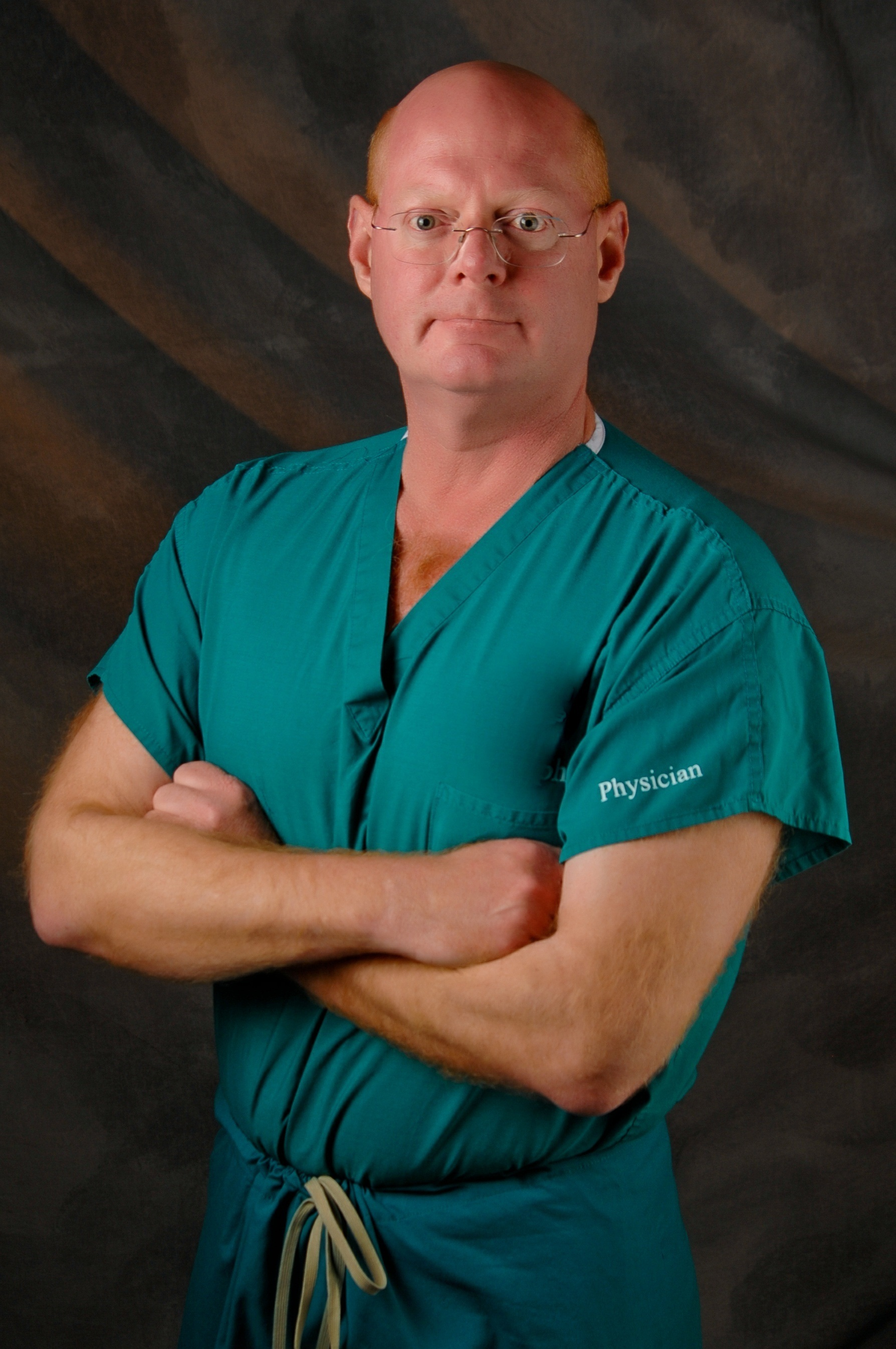 Photo of Dr. Sean Roden, former NASA flight surgeon